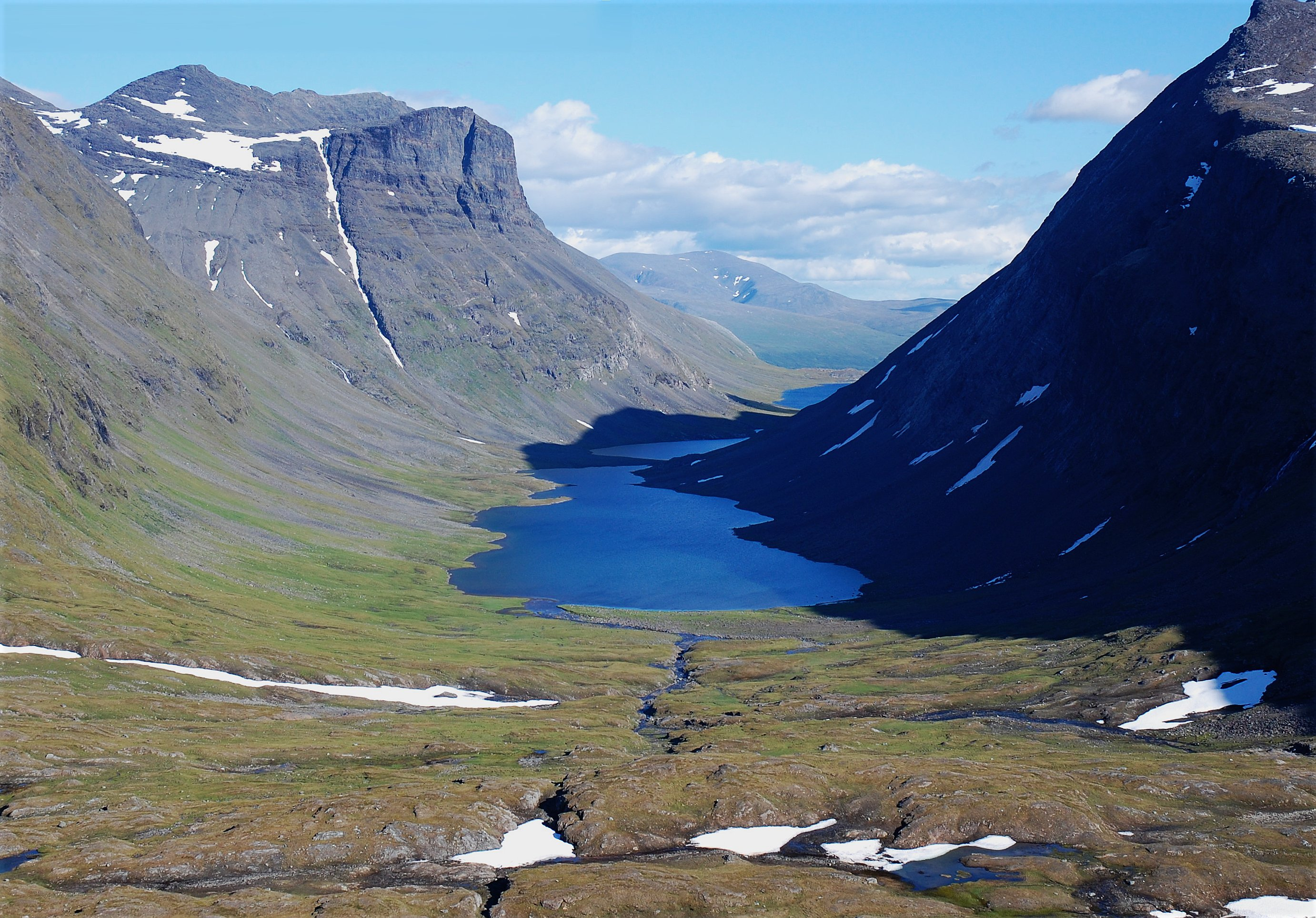 Upper part of Njåtjosvagge in Sarek National Park